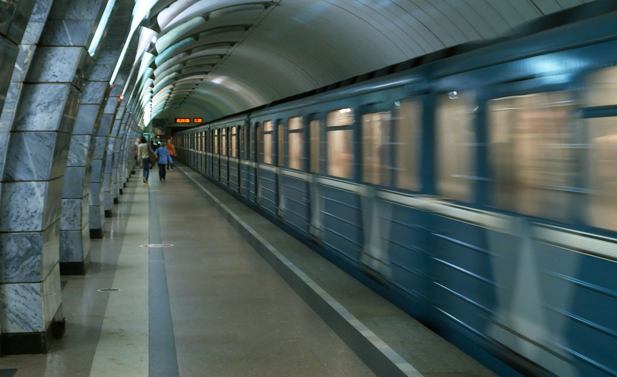 Chkalovskaya station of Moscow Metro.